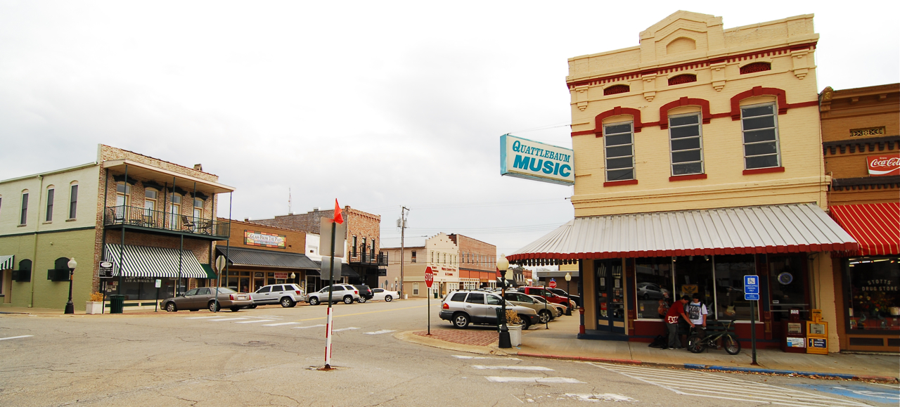 An intersection in downtown Searcy, Arkansas which is quite lively—some may say—compared with other eastern Arkansas towns.